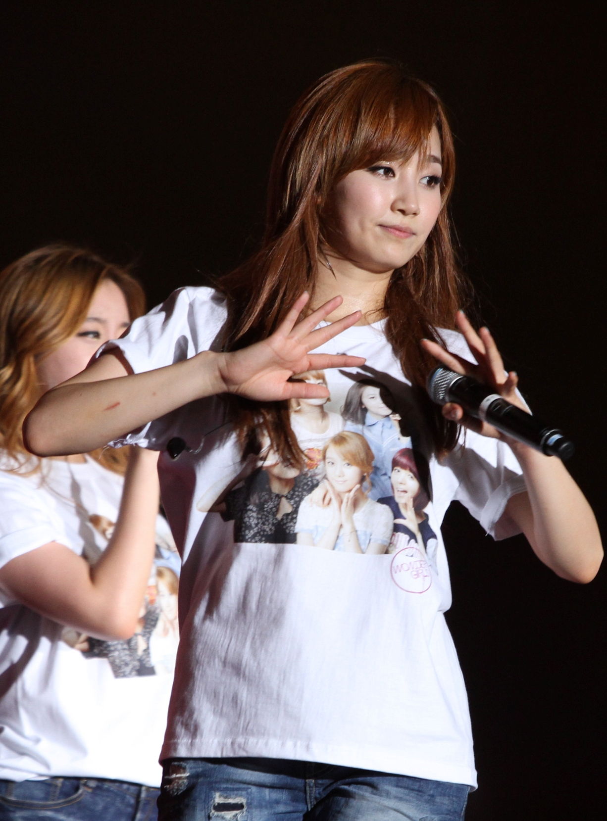 Yeeun performing on Wonder World tour in September 2012